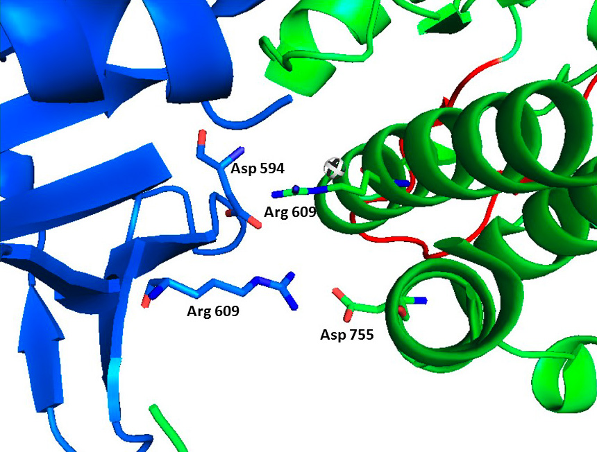 The FGFR1 kinase is bound to the N-SH2 domain primarily through charged amino acids. Arginine residue (R609) on the N-SH2 domain forms a salt bridge to aspartate 755 (D755) on the FGFR1 domain. The acid base pair located in the middle of the interface are nearly parallel to each other, indicating a highly favorable interaction. N-SH2 domain makes an additional polar contact through water-mediated interaction that takes place between the N-SH2 domain and FGFR1 kinase. Interestingly, the arginine residue 609 (R609) on the FGFR1 kinase also forms a salt bridge to the aspartate residue (D594) on the N-SH2 domain. The acid-base pair interacts with each other carry out redox reaction to stabilize the complex.